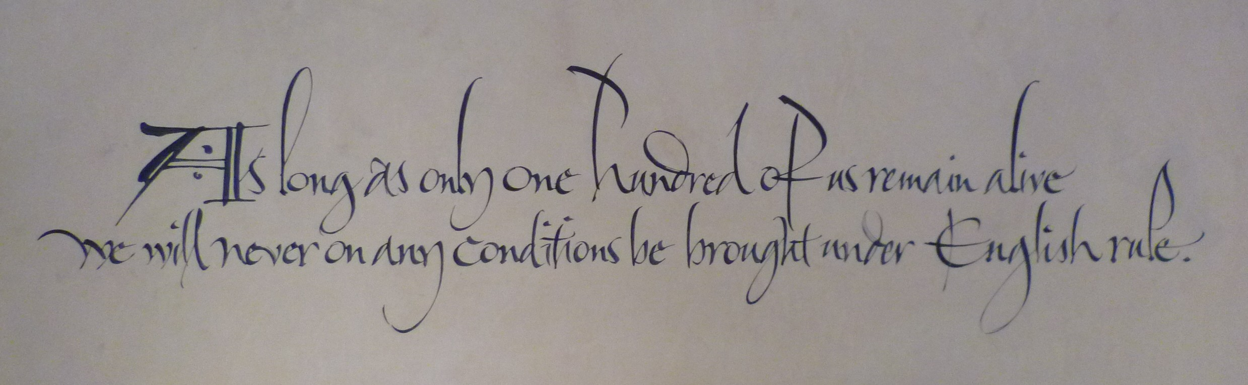 Declaration of Arbroath passage, translated from the Latin original, on a wall of the National Museum of Scotland: "As long as only one hundred of us remain alive we will never on any conditions be brought under English rule."